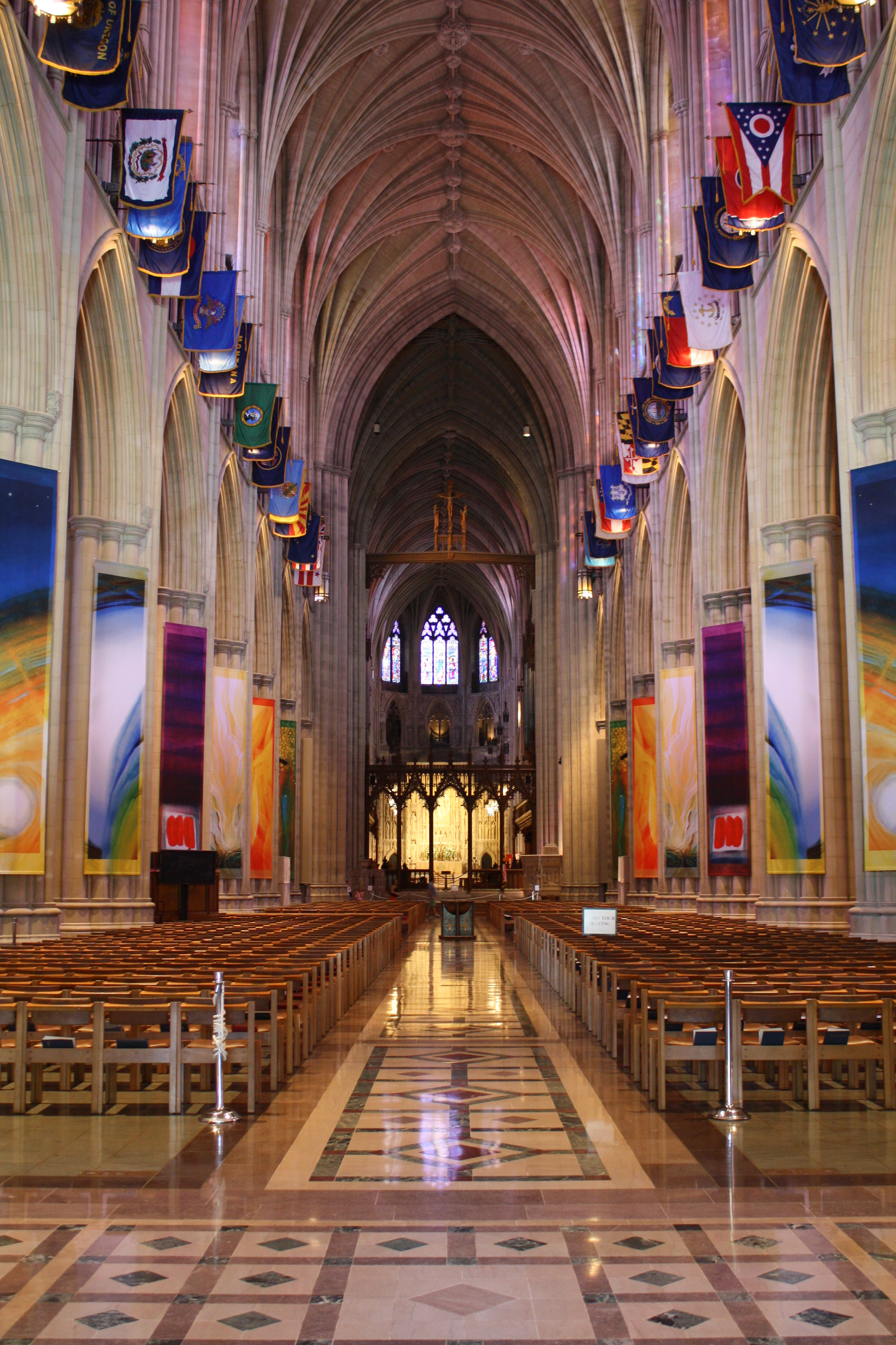 The Washington National Cathedral (Inside)